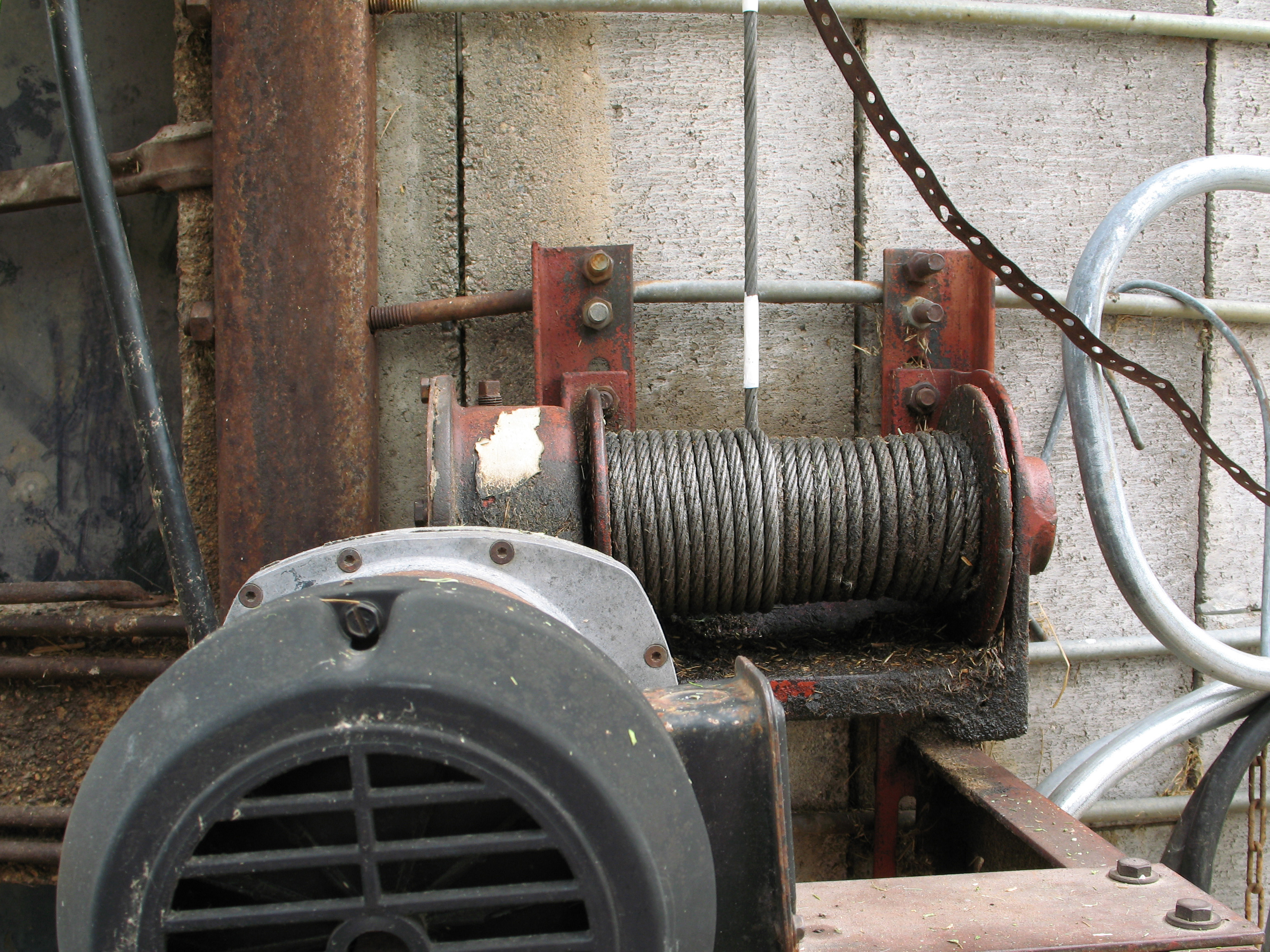 Electric winch for raising and lowering the silo unloader. The winch motor itself is gear-reduced to approximately 5 RPM, which is further reduced in the winch housing itself. In the spring when the silo has been emptied, it takes a few hours to lift the unloader back to the top to prepare for filling. – The white tape is a position indicator to the winch operator to know when the unloader has reached the apex of the silo, and is visble from inside the barn about 40 ft away.